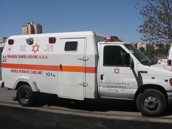 (permission acquired from photographer) Magen David Adom Ford E-450 superduty armoured civilian MICU (Mobile Intensive Care Unit) ambulance from the Jerusalem District, 2006.